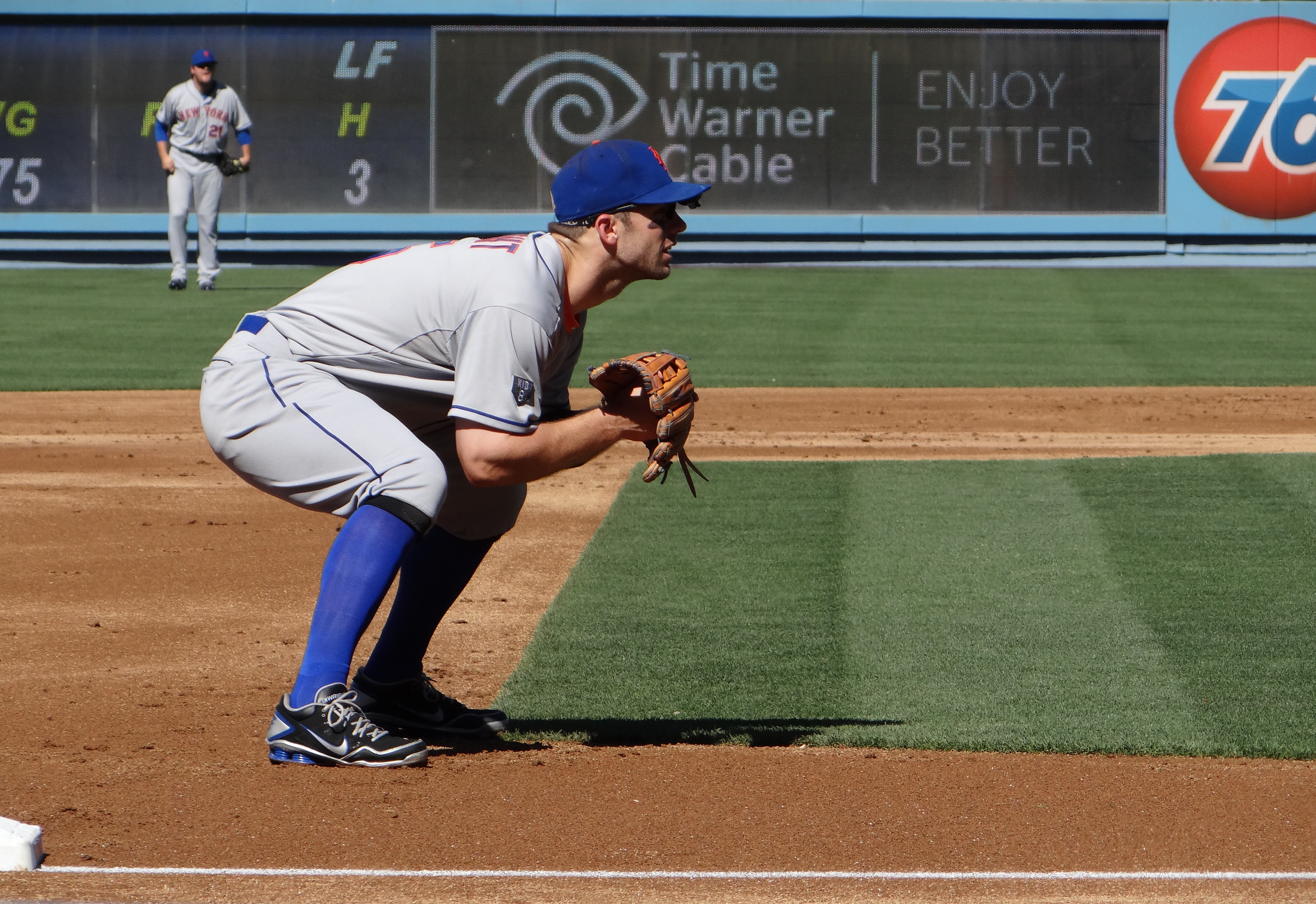 David Wright, New York Mets third baseman, playing at Dodger Stadium, June 30, 2012